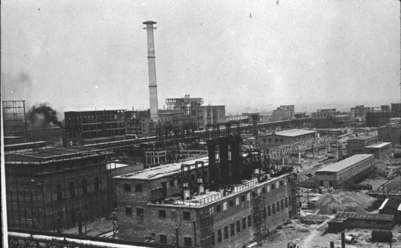 1941, IG Farben's plant of Buna + Montan, near Auschwitz" ; Overview ; Source : German Federal Archive